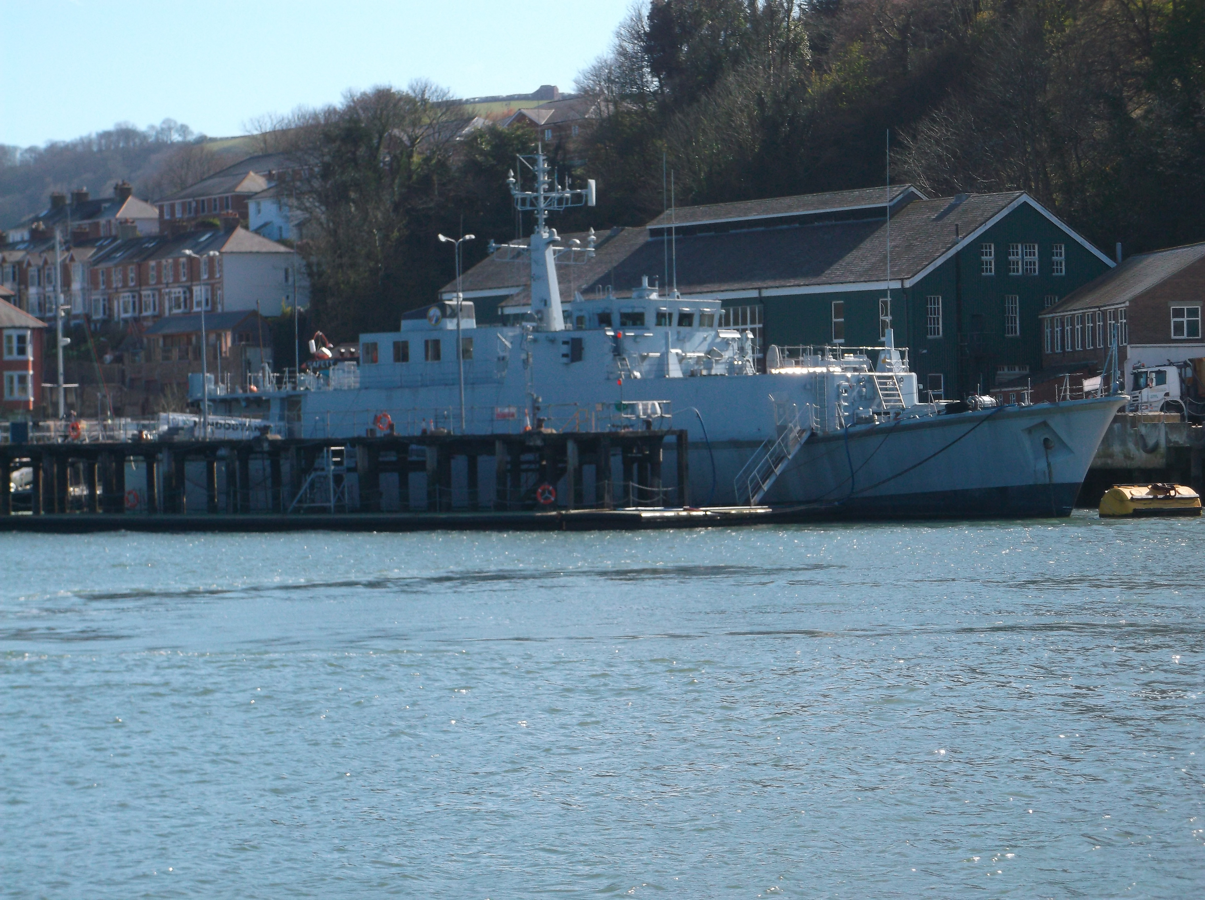 Sandquay, a small dockyard on the Dart estuary attached to Britannia Royal Naval College, which houses various training vessels